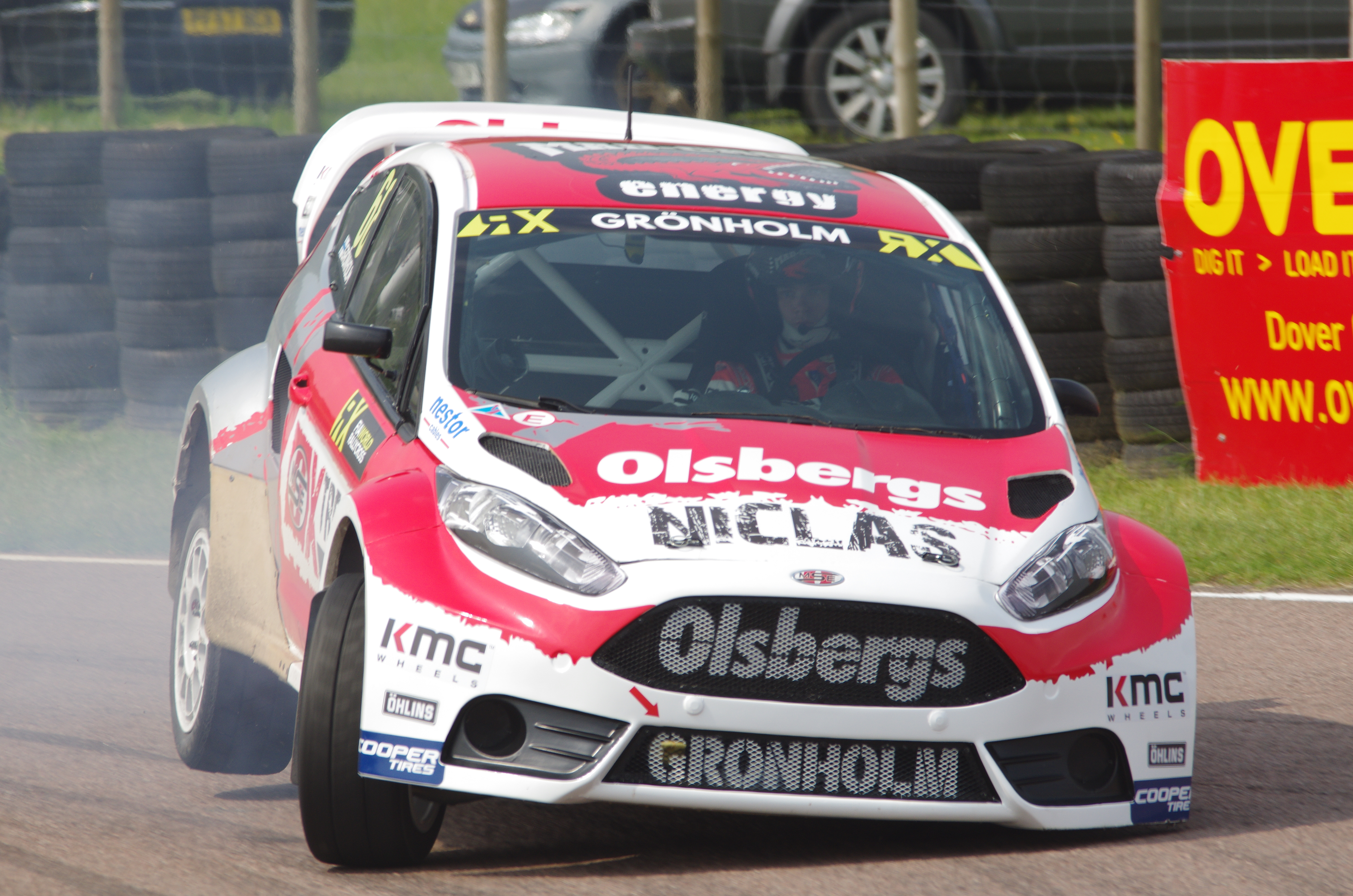 Saturday 28th May. Hairpin. Son of Marcus. This year, competing in World Rallycross. Next year, Finnish Army for National Service.